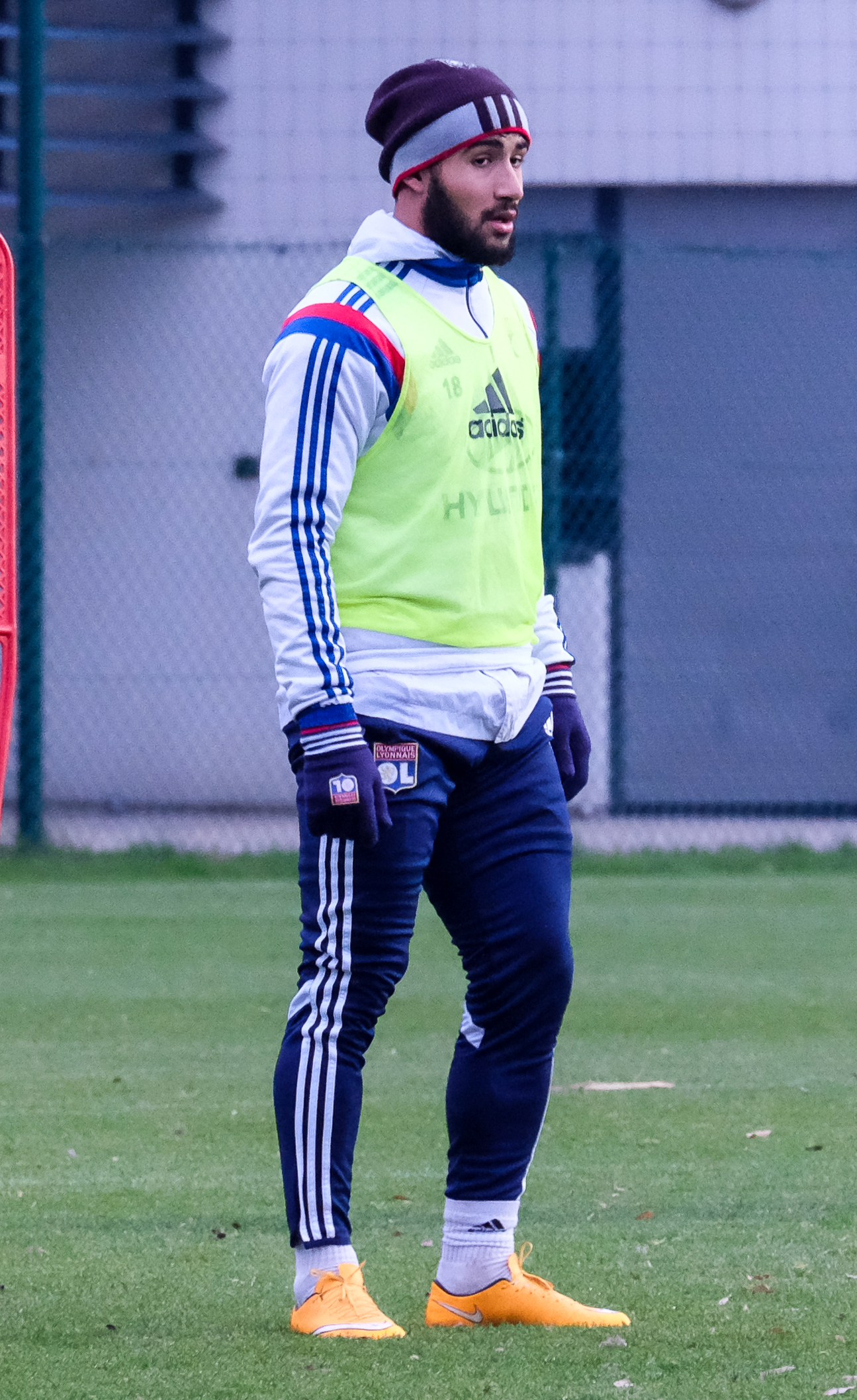 Nabil Fekir training with Olympique Lyonnais